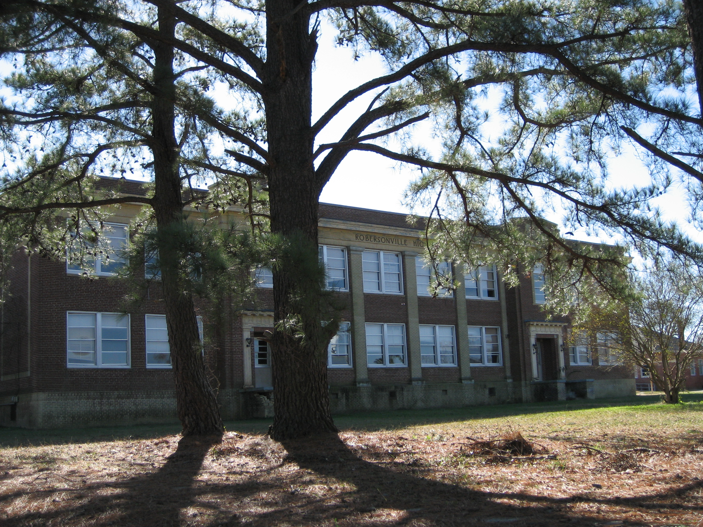 Closer view of Robersonville High School